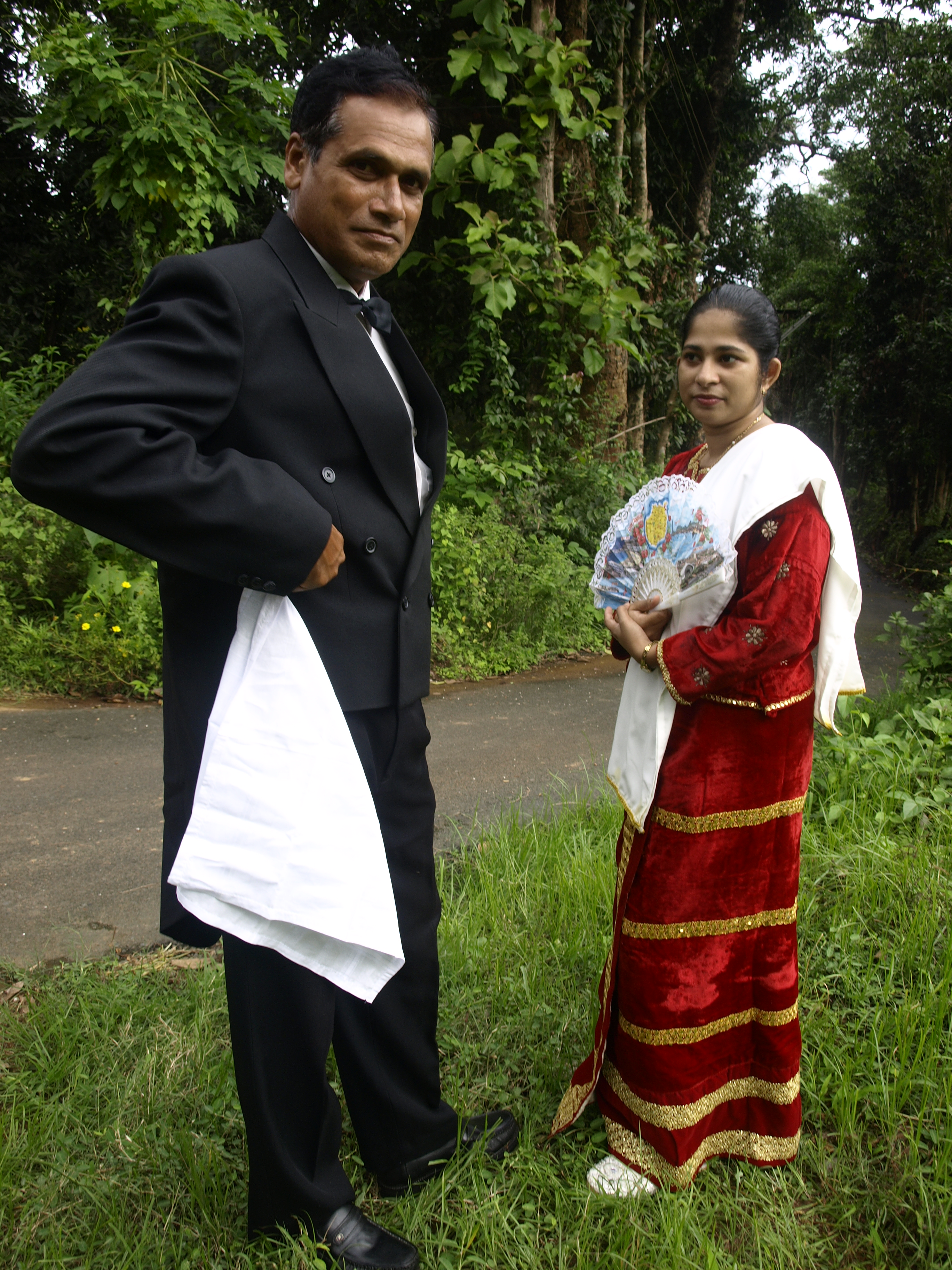 Performers of the Mando song-dance form pose for a photo on a rainy day outside their home in Curtorim. Photo by Frederick Noronha. +91-9822122436